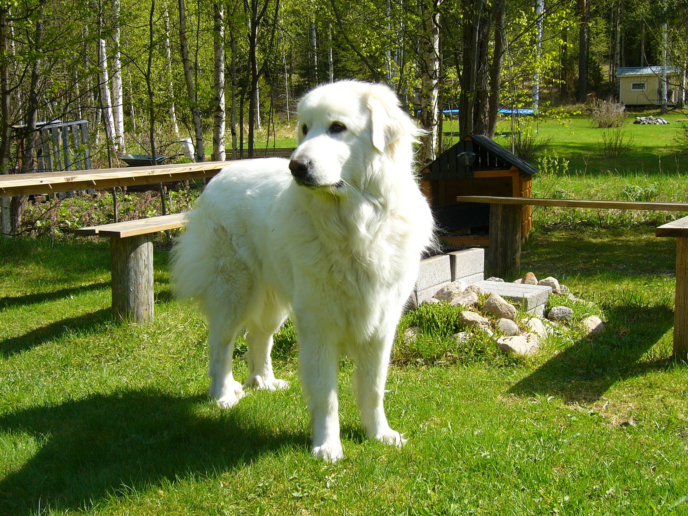 Pyrenean Mountain Dog